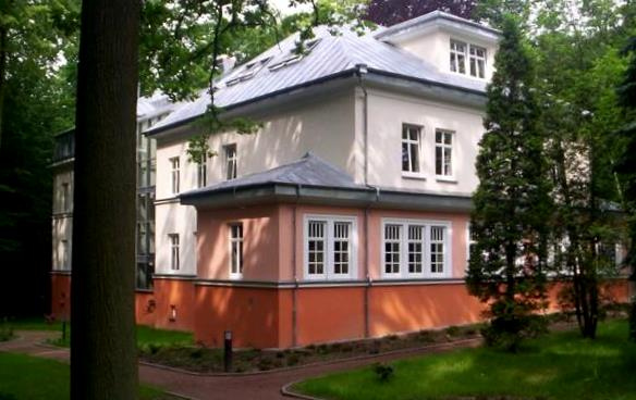 Masnowka in Park Zdrojowy